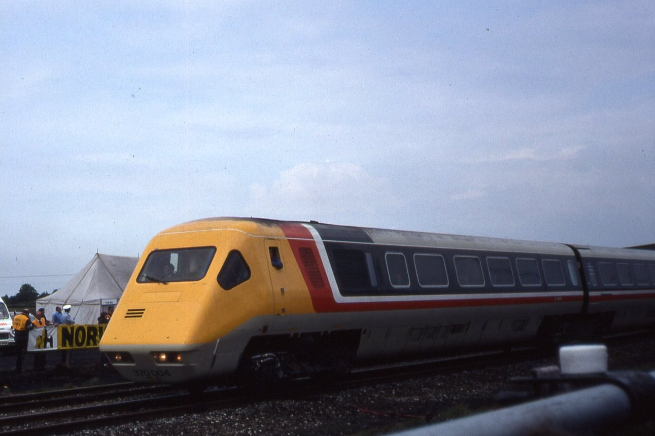 APT 370-004, Rocket 150, Rainhill, May 1980 Slides187